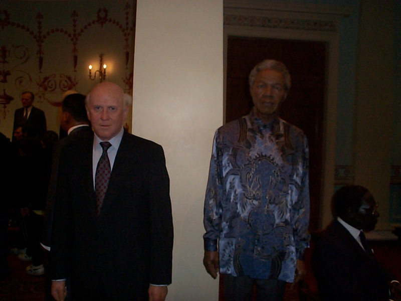 Wax figures of F.W. de Klerk and Nelson Mandela, respectively state president and president of South Africa